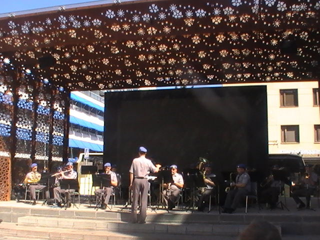 Military Band of the county of Oulu performing at Rotuaari, Oulu in June 2013. It was one of the last performings prior to the merger with other bands of the finnish army.